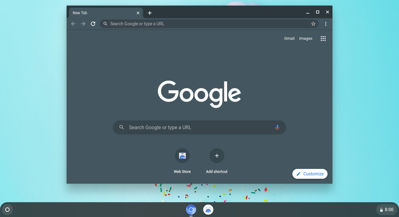 A screenshot taken from my pc